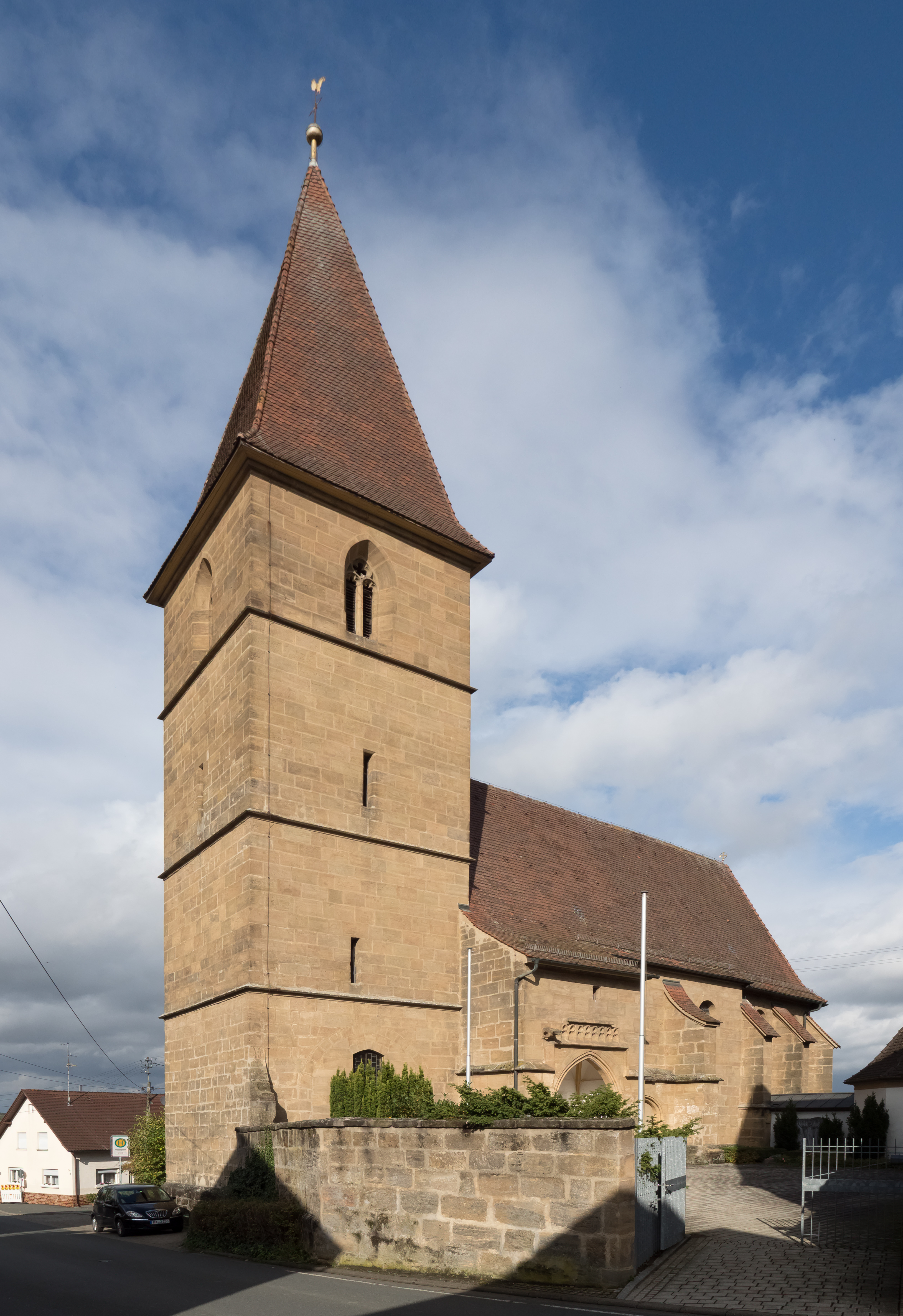 Catholic parish church St. Sigismund in Seußling